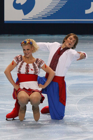 Madison Hubbell and Keiffer Hubbell perform their Ukrainian original dance at the 2009 Trophee Eric Bompard.